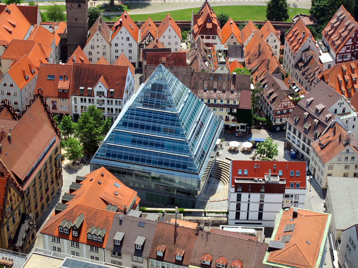 City of Ulm from the Munster